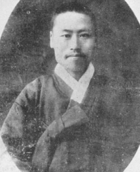 Portrait of linguist Ju Si-gyeong (1876-1914)